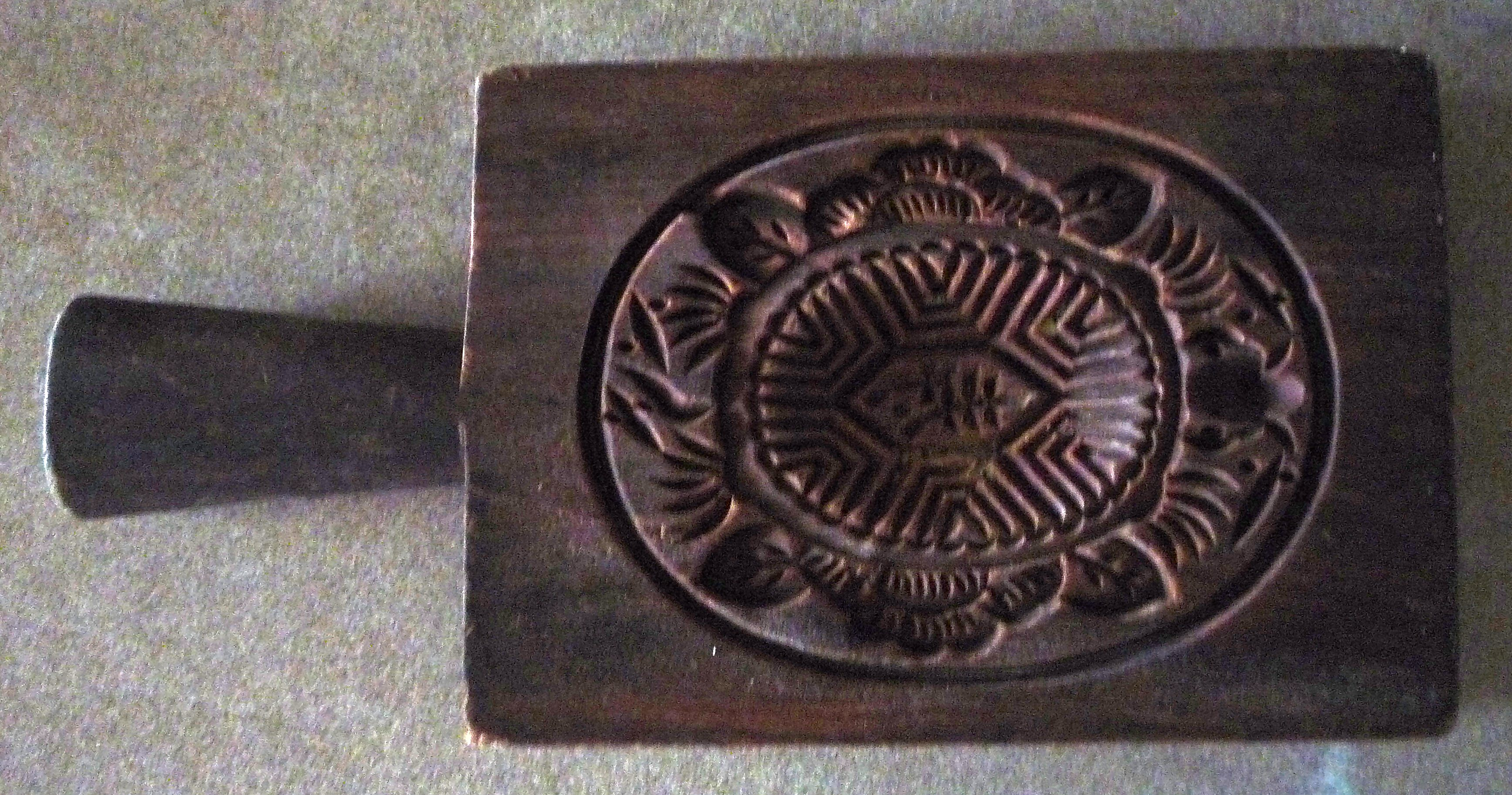 This is a wooden red tortoise mould with a tortoise shell design.